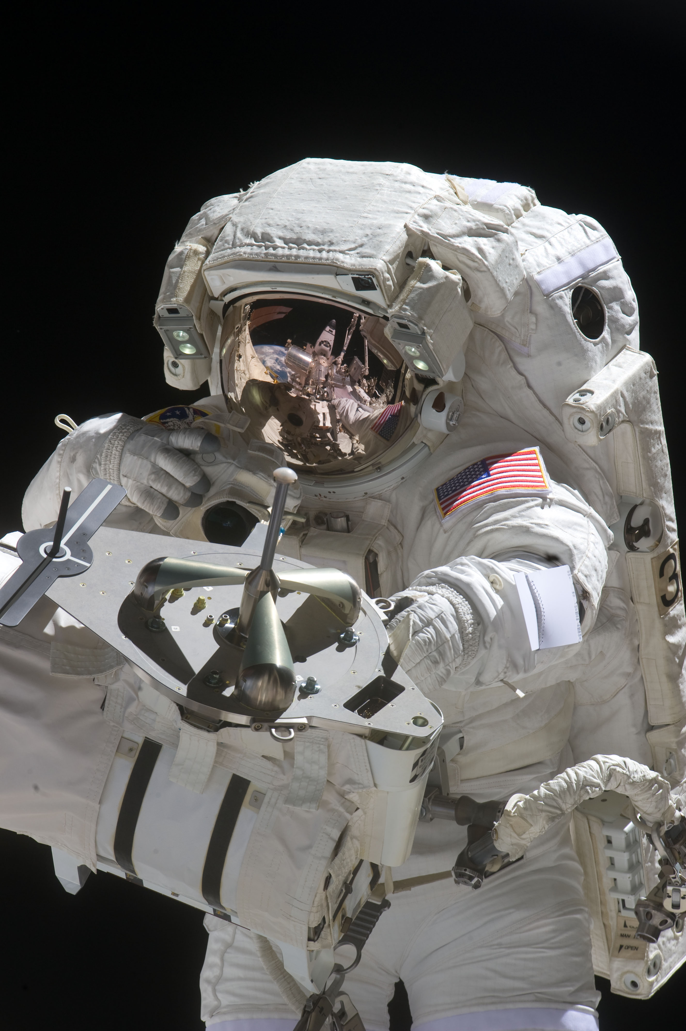 NASA astronaut Michael Fincke participates in the mission's fourth session of extravehicular activity (EVA) as construction and maintenance continue on the International Space Station. During the seven-hour, 24-minute spacewalk, Fincke and astronaut Greg Chamitoff (out of frame), both STS-134 mission specialists, completed the primary objectives for the spacewalk, including stowing the 50-foot-long boom and adding a power and data grapple fixture to make it the Enhanced International Space Station Boom Assembly, available to extend the reach of the space station's robotic arm.